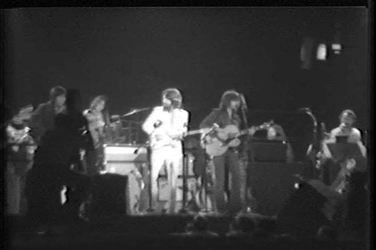 video still frame pictures presented for informational and identification purposes only and for means of subject review and educational considerations, as extracted from the historical 1971 half-hour long half-inch reel to reel motion picture sound videotape of the afternoon benefit charity show for humanitarian relief known as the Concert for Bangla Desh as produced at Madison Square Garden, New York City on August 1, 1971 - by author, historian, archivist and filmmaker / video producer Richard Warren Lipack.